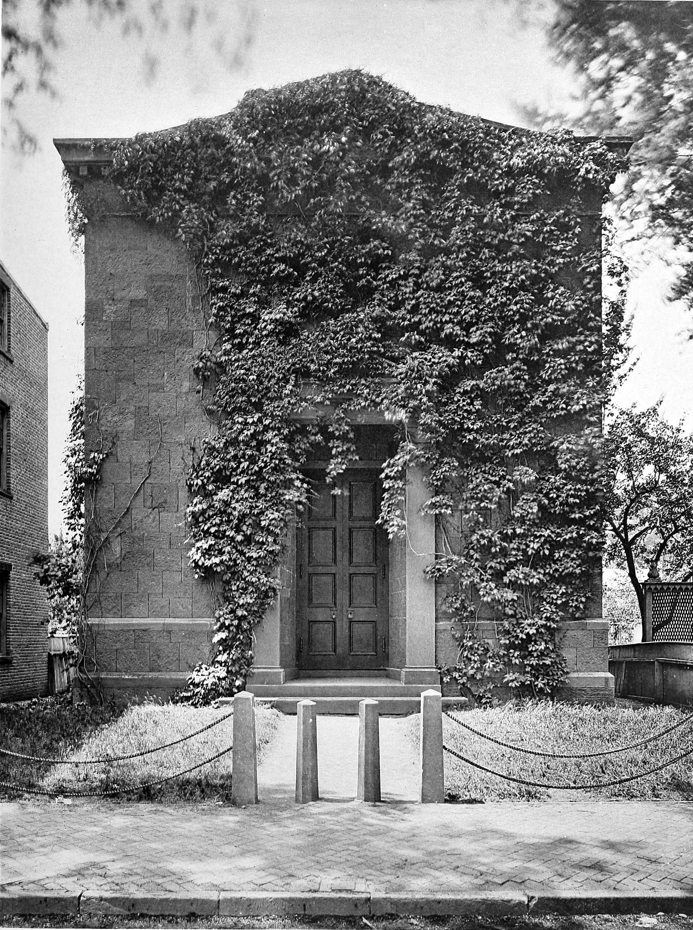 Skull and Bones tomb, circa 1879, before expansion